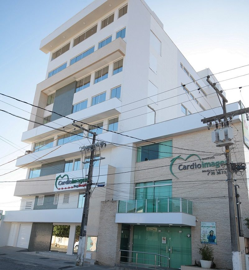 Clínica e Day Hospital da Cardioimagem em Cruz das Almas - Bahia.